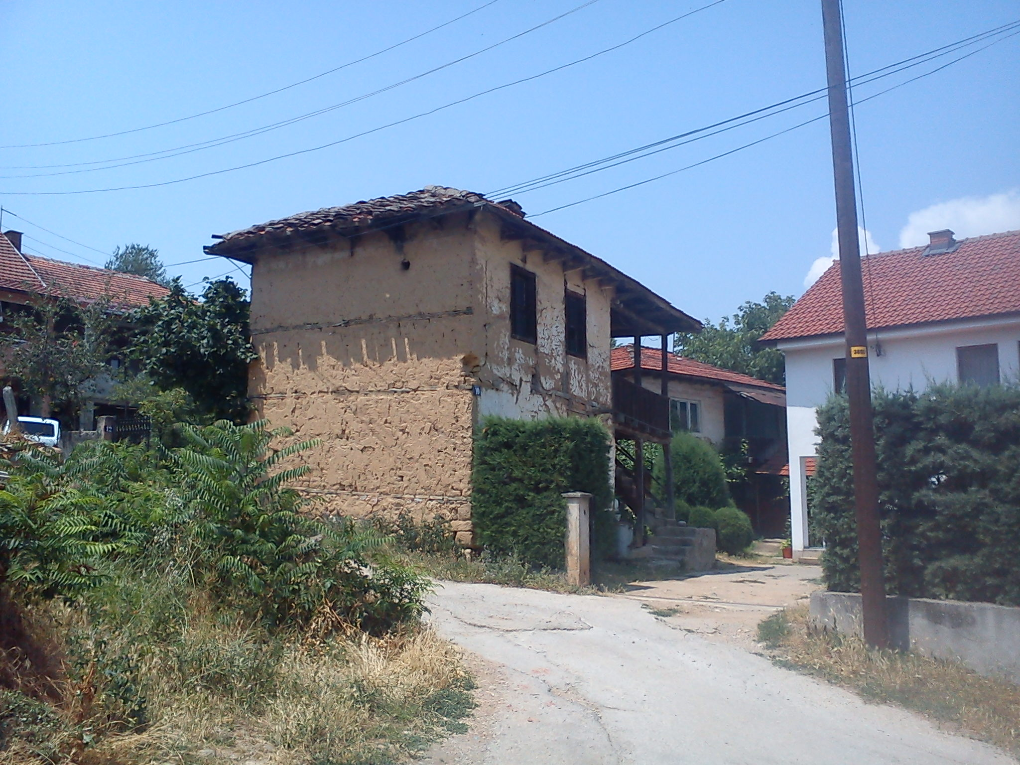 An old Macedonian house in Drachevo, Macedonia